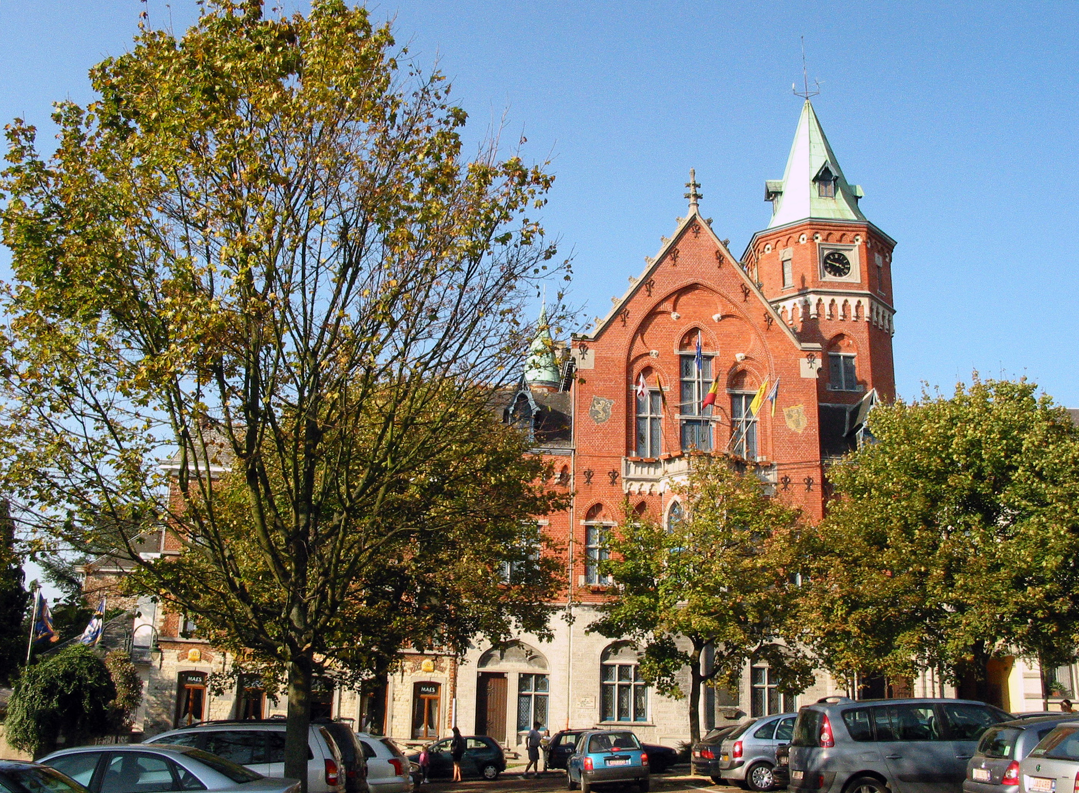 Braine-l'Alleud (Belgium), the town hall.